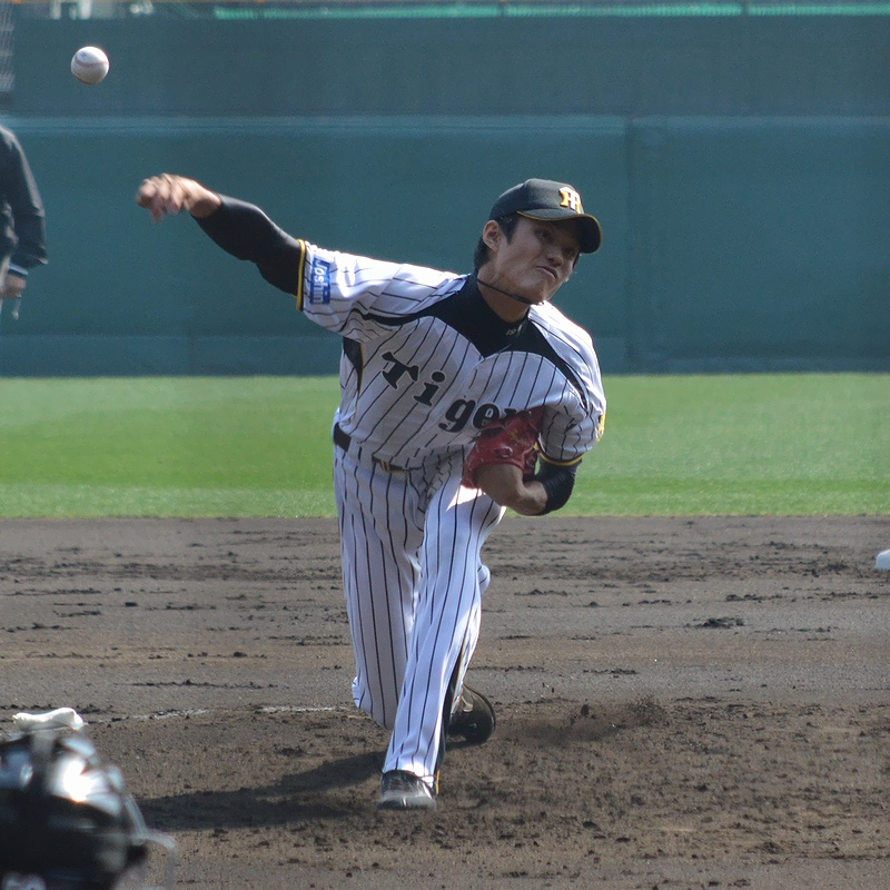 HT-Shintaro-Fujinami20131012